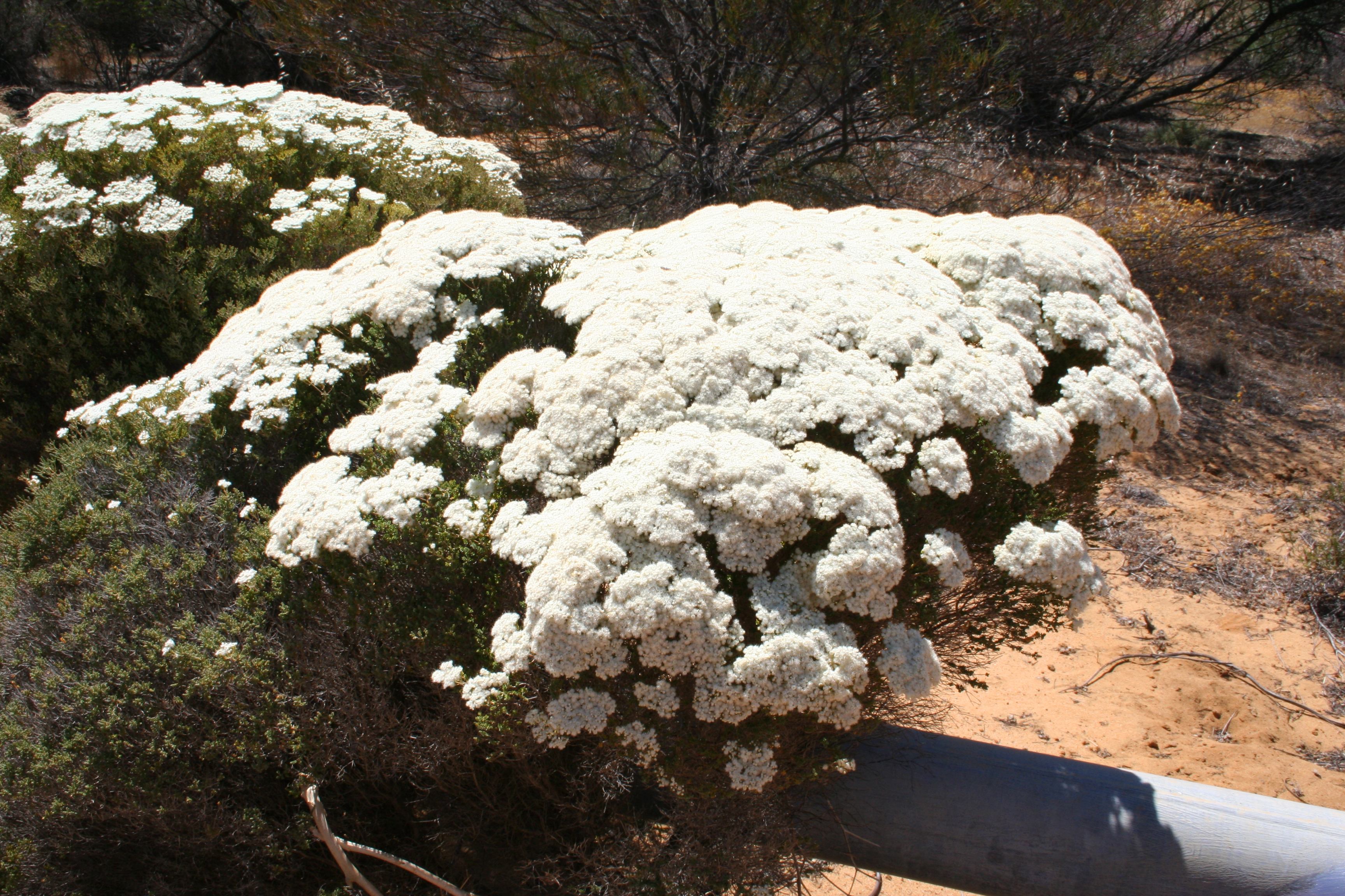 Verticordia eriocephala - northern wheatbelt, I'd guess about 300 km NNE of Perth (were on our way to see Banksia benthamiana and stopped off by the roadside)